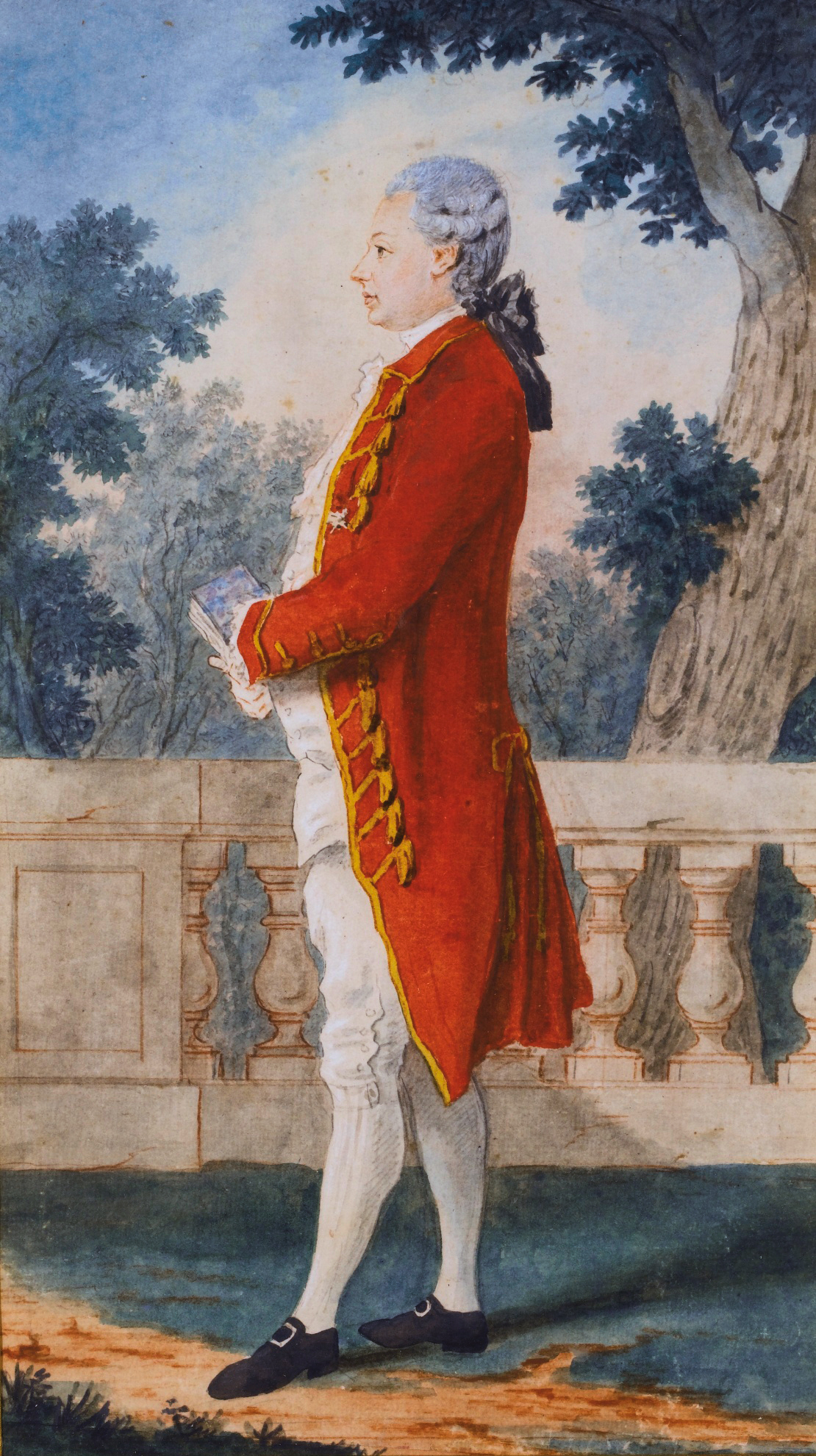 Anne Charles Sigismond de Montmorency-Luxembourg, 10th duc de Piney-Luxembourg (1737-1803) black and red chalk and watercolor, heightened with white within black ink framing lines 35.8 x 22.8 cm inscribed verso: le duc de Luxembourg, N°362 Musée de la Franc-Maçonnerie, Paris